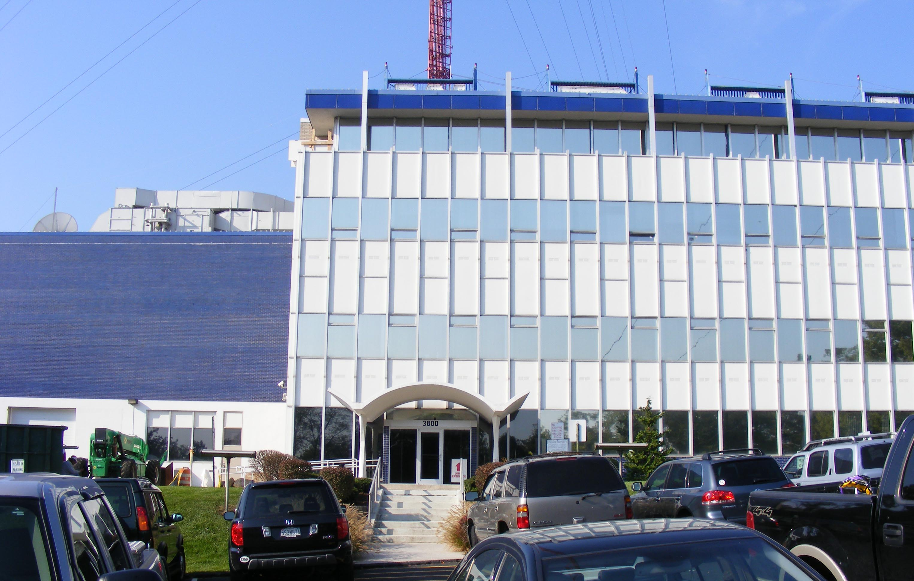 The WBAL-TV studio and office facility, on Television Hill in Baltimore, opened in 1962.